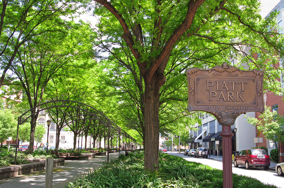 Piatt Park in Downtown Cincinnati, Ohio.